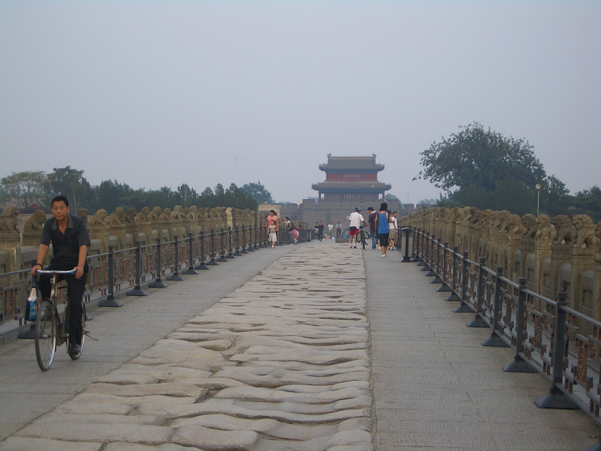 Even more lions on the Lugou Bridge over the Yongding River.